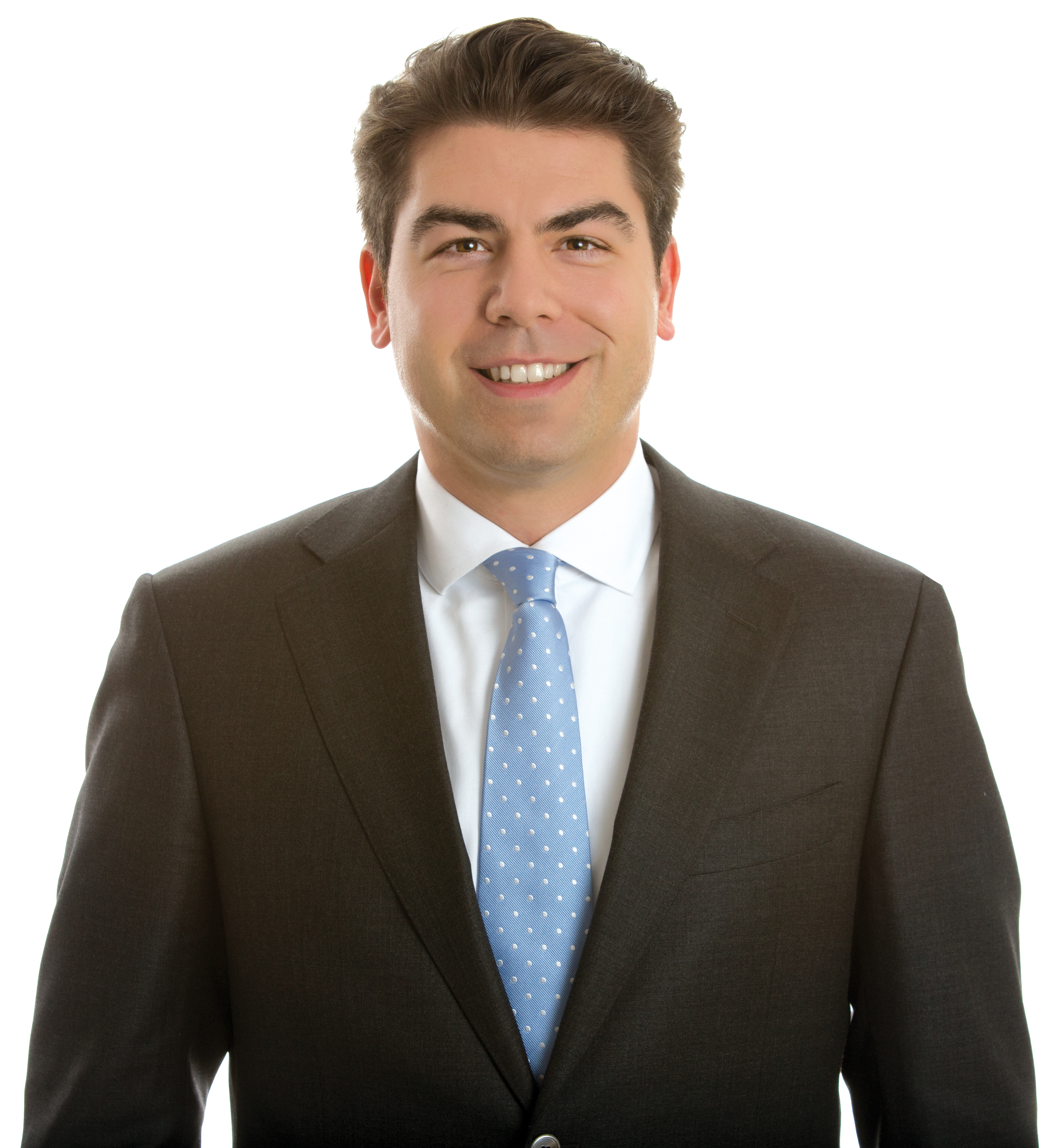 Portraiture of Thomas Hitschler (German MP)